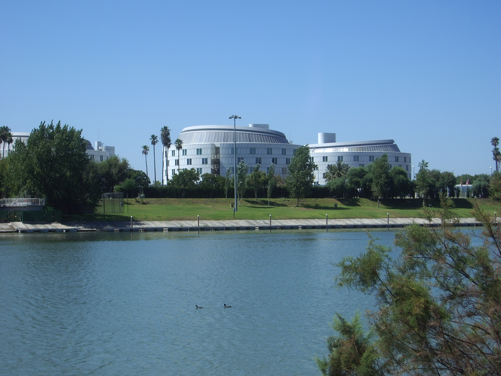 'Barceló Gran Hotel Renacimiento' (***** Hotel in Seville, Spain).